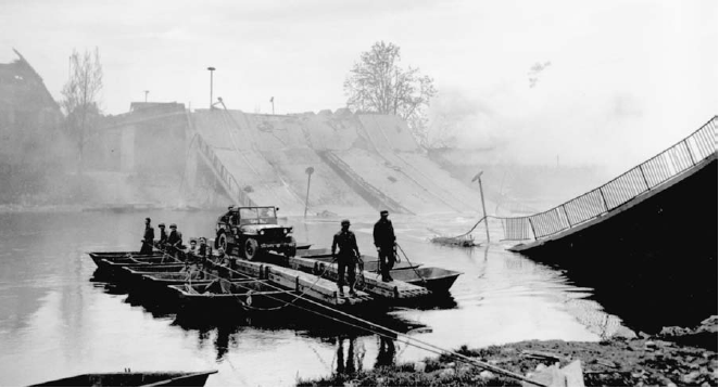 US Army Engineers operating an assault ferry across the Neckar River in Heilbronn, Germany. At the right is the destroyed Rosenberg bridge.